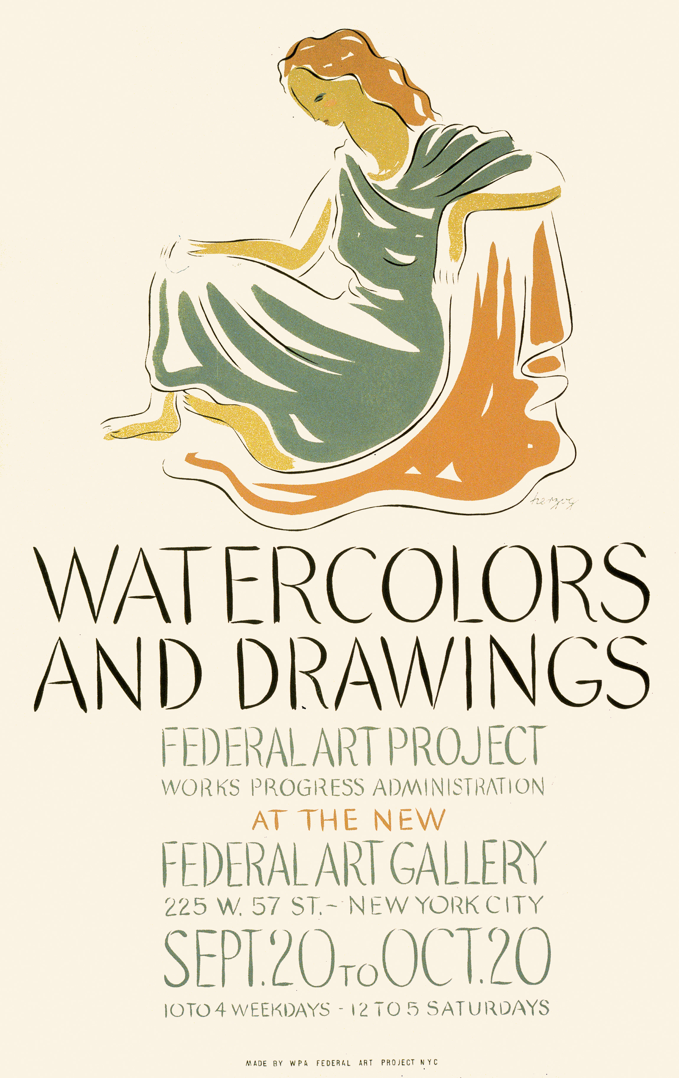 Poster for Watercolrs and Drawings show at Federal Art Gallery, NYC